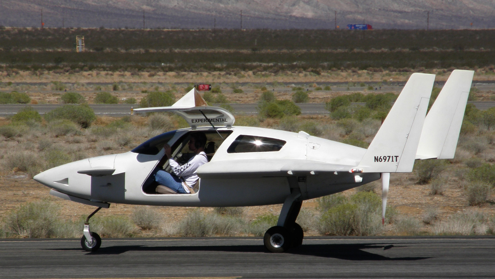 Velocity SE RG N6971T at the Mojave Spaceport